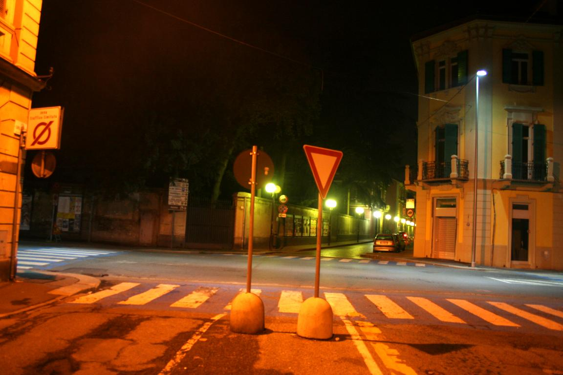 Crossroad in Alessandria, Italy. Road lights with mercury lamps are in the background, LED street lights are in the middle, while high pressure sodium lamp are in the foreground. Supposed superiority of "blue-while" lighting is at best questionable for common road applications